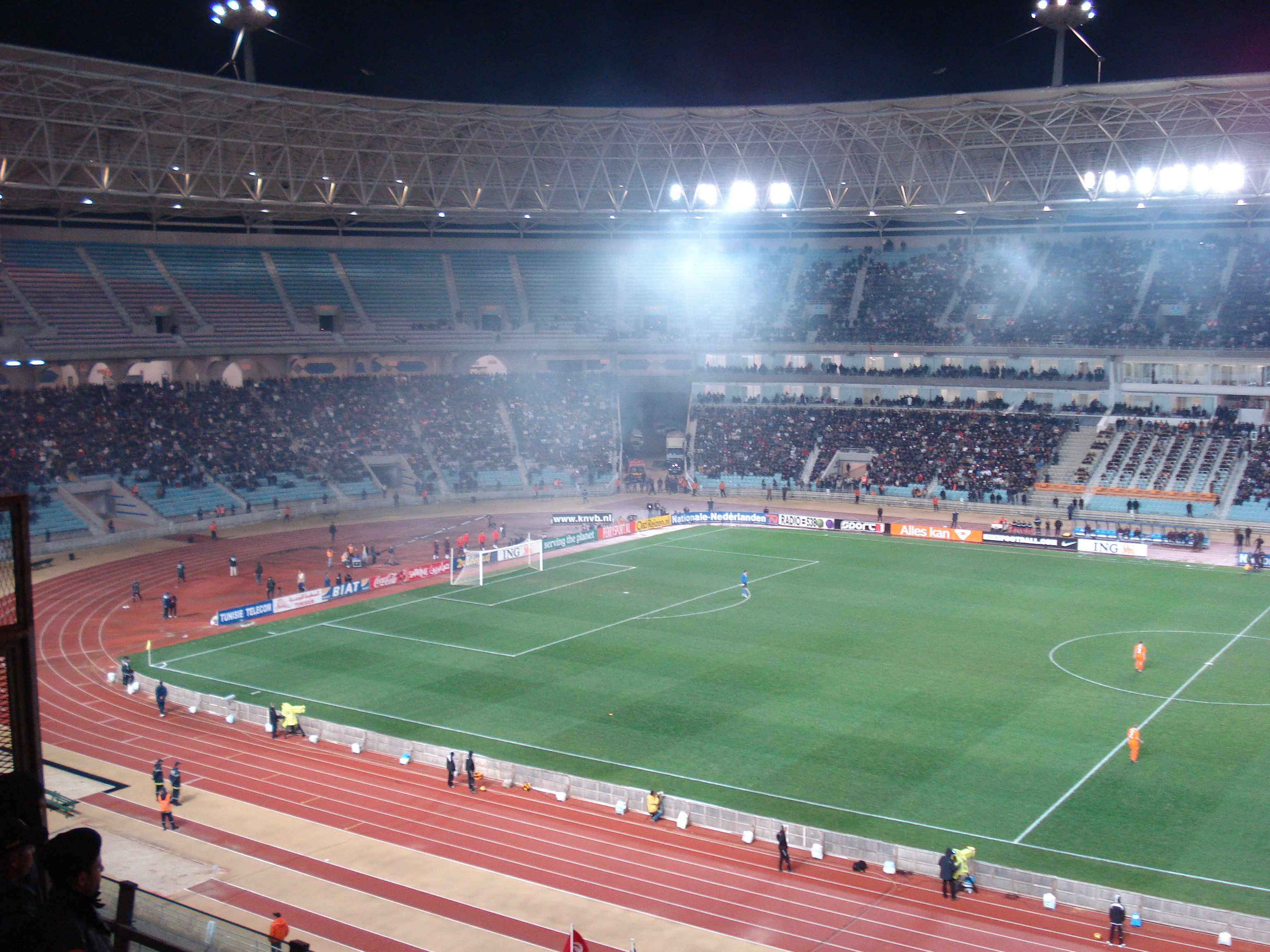 Tunisia - Netherlands (Stade de Radès).jpg